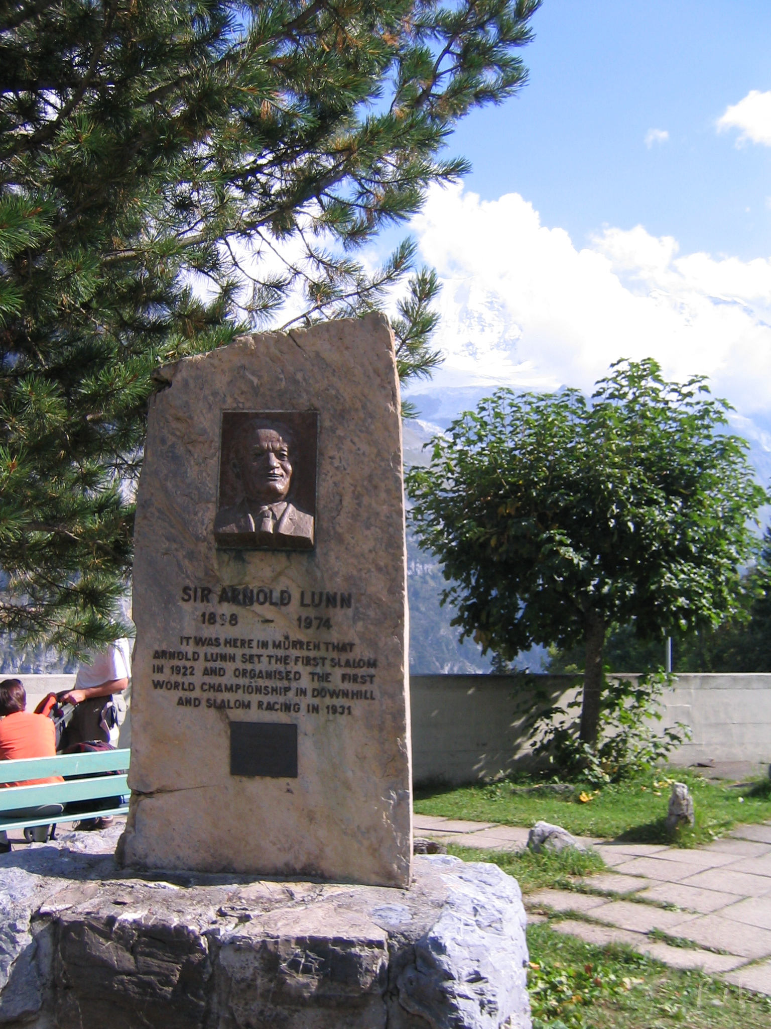 Memorial to Arnold Lunn in Mürren, Switzerland. The text reads, "Sir Arnold Lunn 1898–1974. It was here in Mürren that Arnold Lunn set the first slalom in 1922 and organised the first world championship in downhill and slalom racing in 1931." Note that the birth date is incorrect; Lunn was born in 1888. Photo by User:Gdr